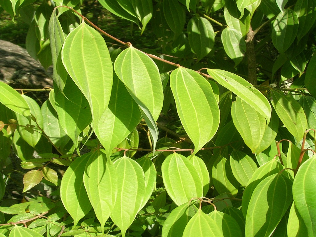 Leaves of Cinnamon, Pithoragarh, Himalayas, India